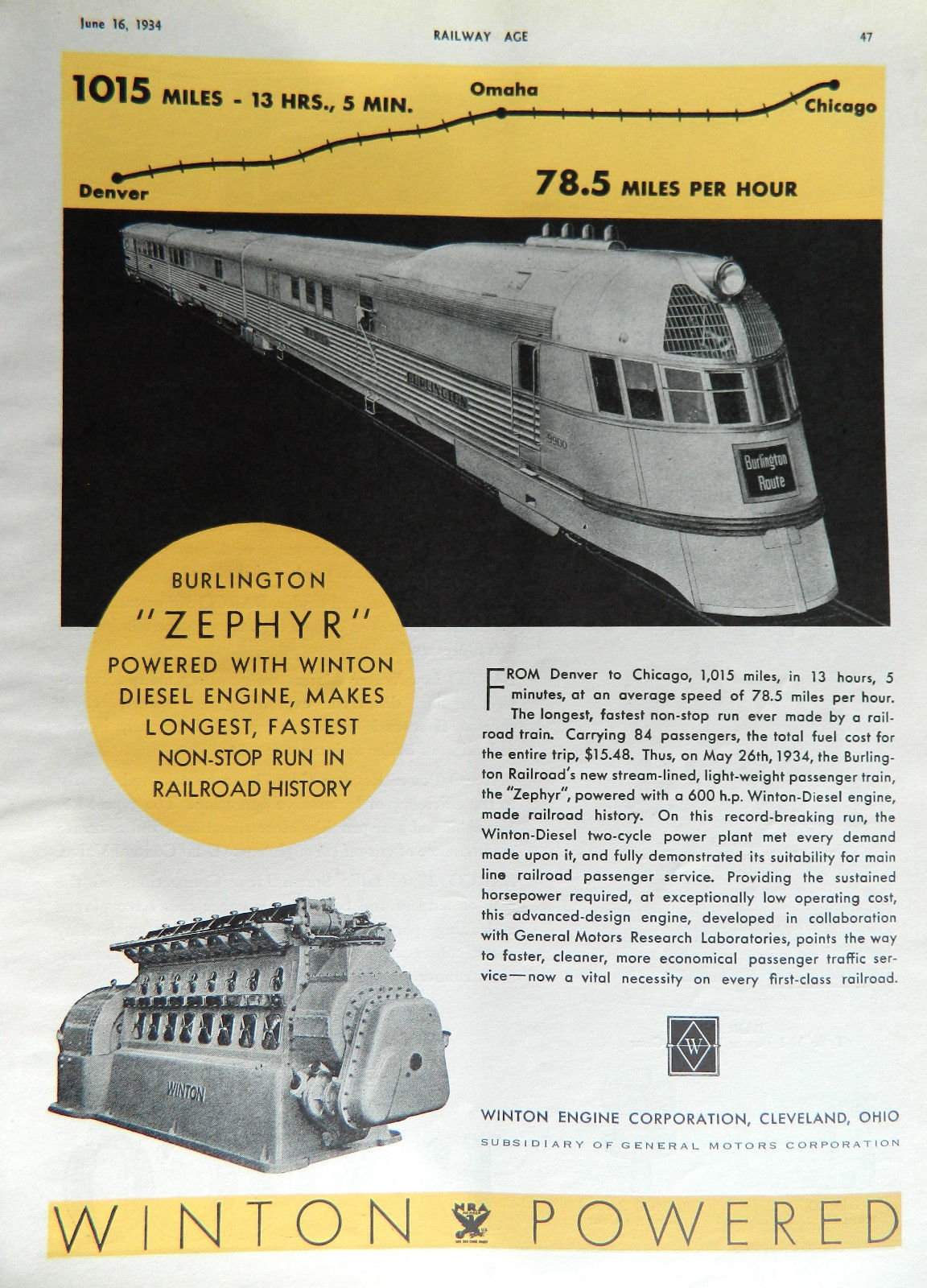 Winton Engines ad in Railway Age regarding the Pioneer Zephyr and the "dawn to dusk dash". A Winton diesel engine powered the Pioneer Zephyr.